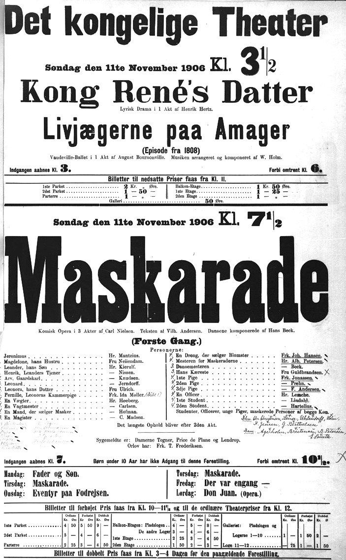 Poster for the world premiere performance of Carl Nielsen's opera Maskarade, 11 November 1906